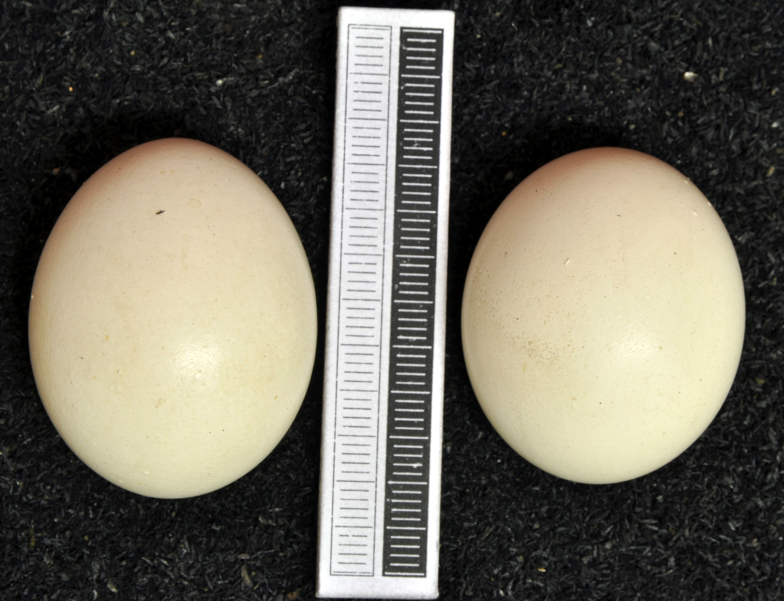 Northern hawk-owl Surnia ulula , egg, Coll. Museum Wiesbaden